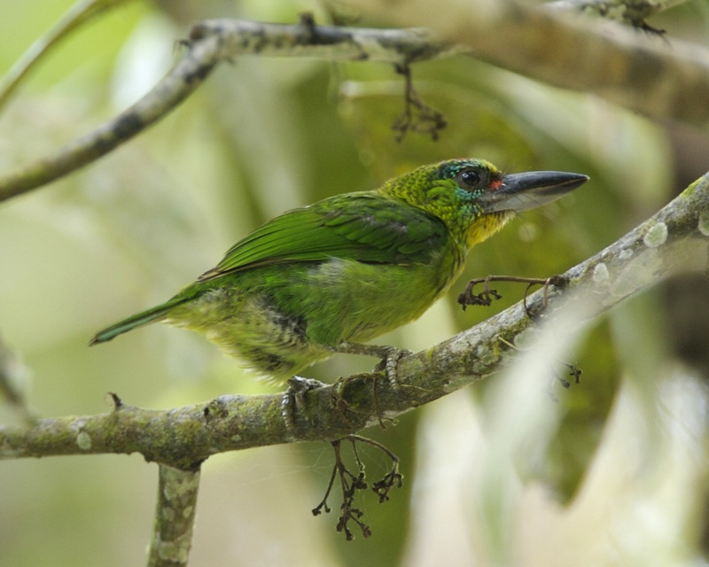 Red-throated Barbet - subadult female Megalaima mystacophanos ssp mystacophanos Phuket Island, South Thailand 28th. August 2007 Same bird (notice 3 little twigs, 2 below and 1 above) slightly different view Status : NEAR THREATENED Distribution: ssp _Q0S9225